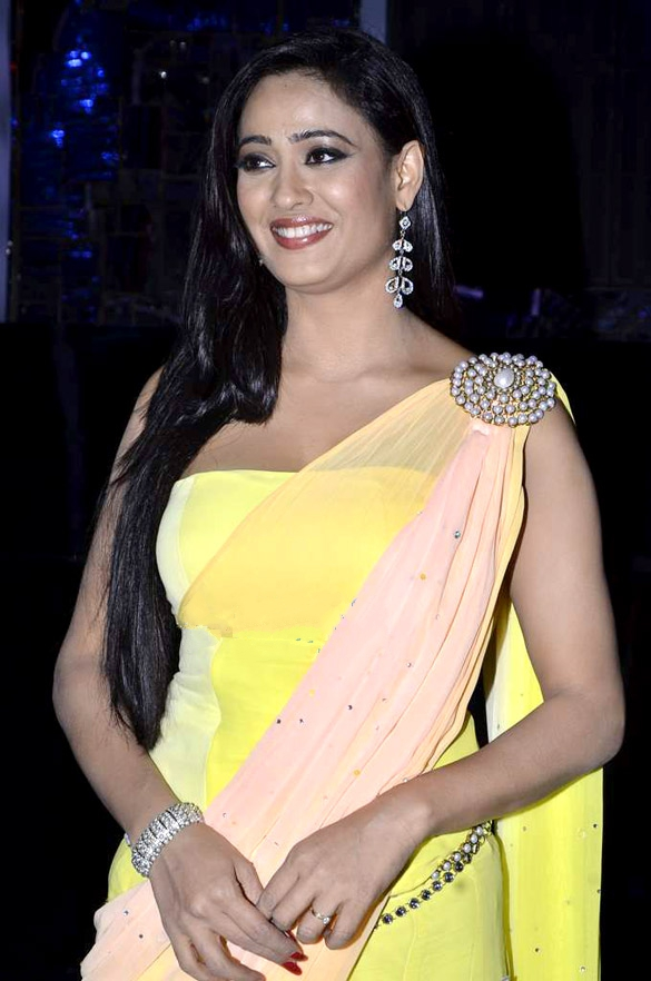 Shweta Tiwari on 'Jhalak Dikhhla Jaa Season 6'